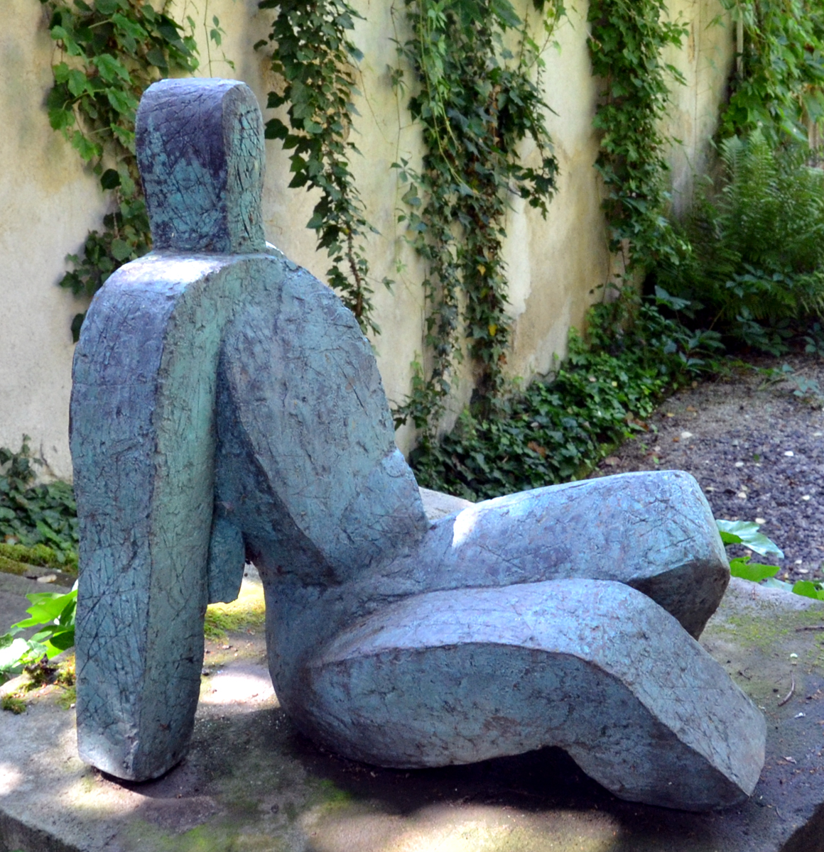 Zdeněk Palcr - Sitting figure, 1959, bronze